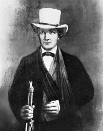 Portrait of the Voortrekker leader Andries Pretorius